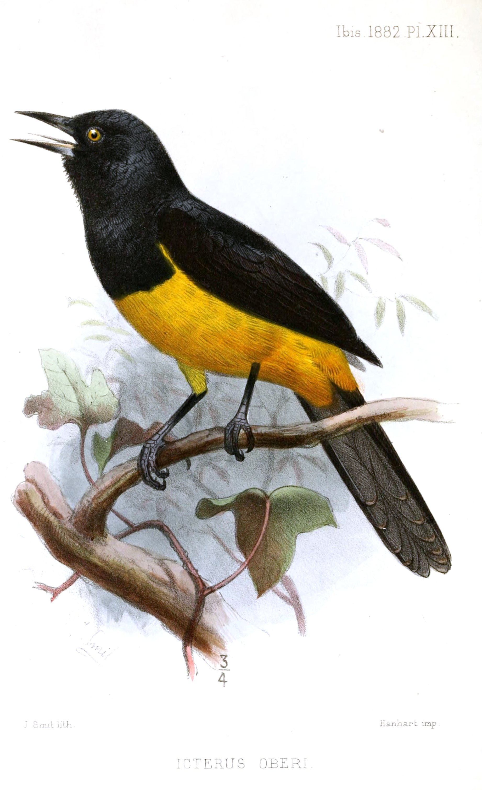 « Icterus oberi » = Icterus oberi (Montserrat oriole)